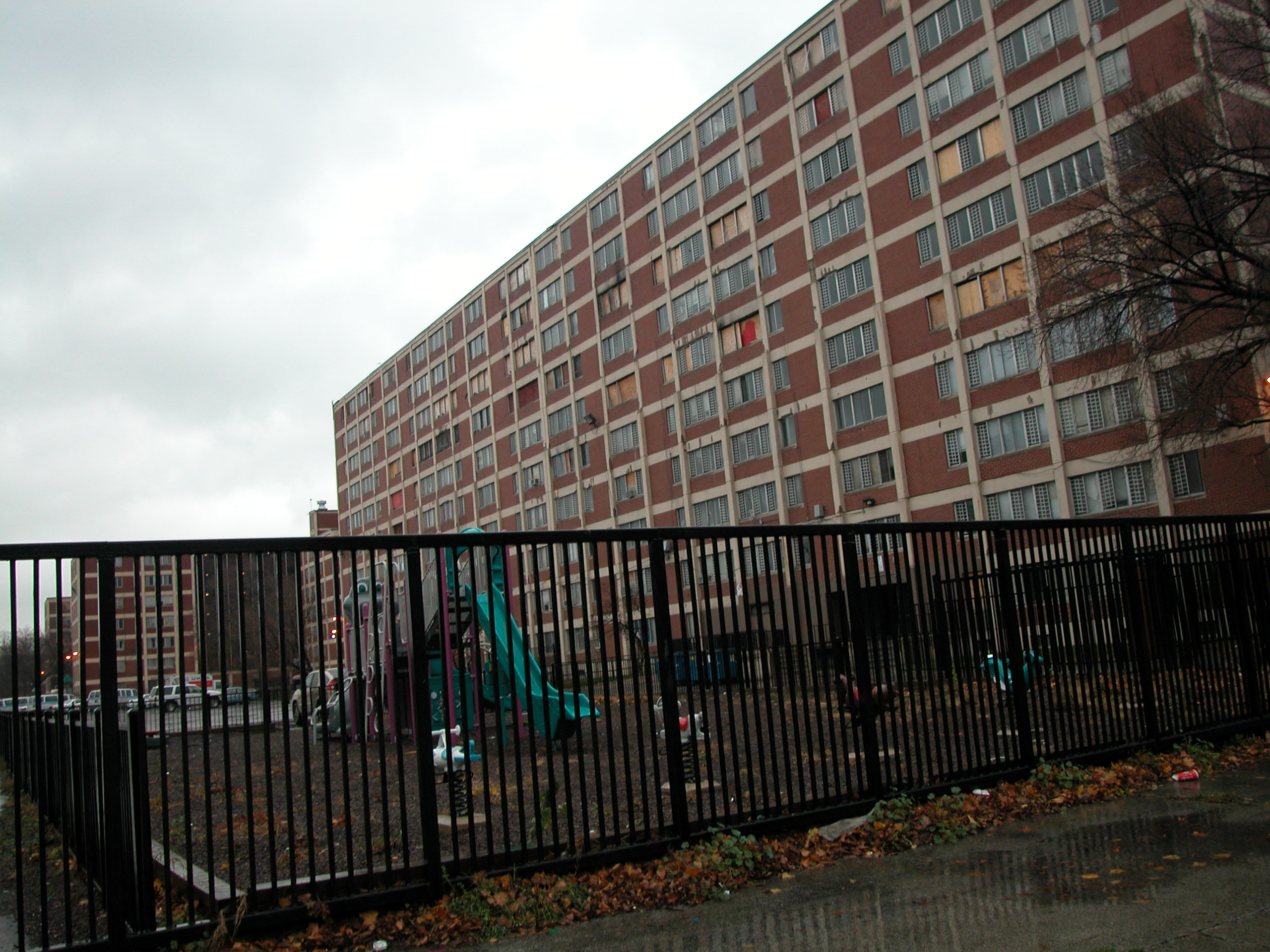 Cabrini Green housing projects in 2004